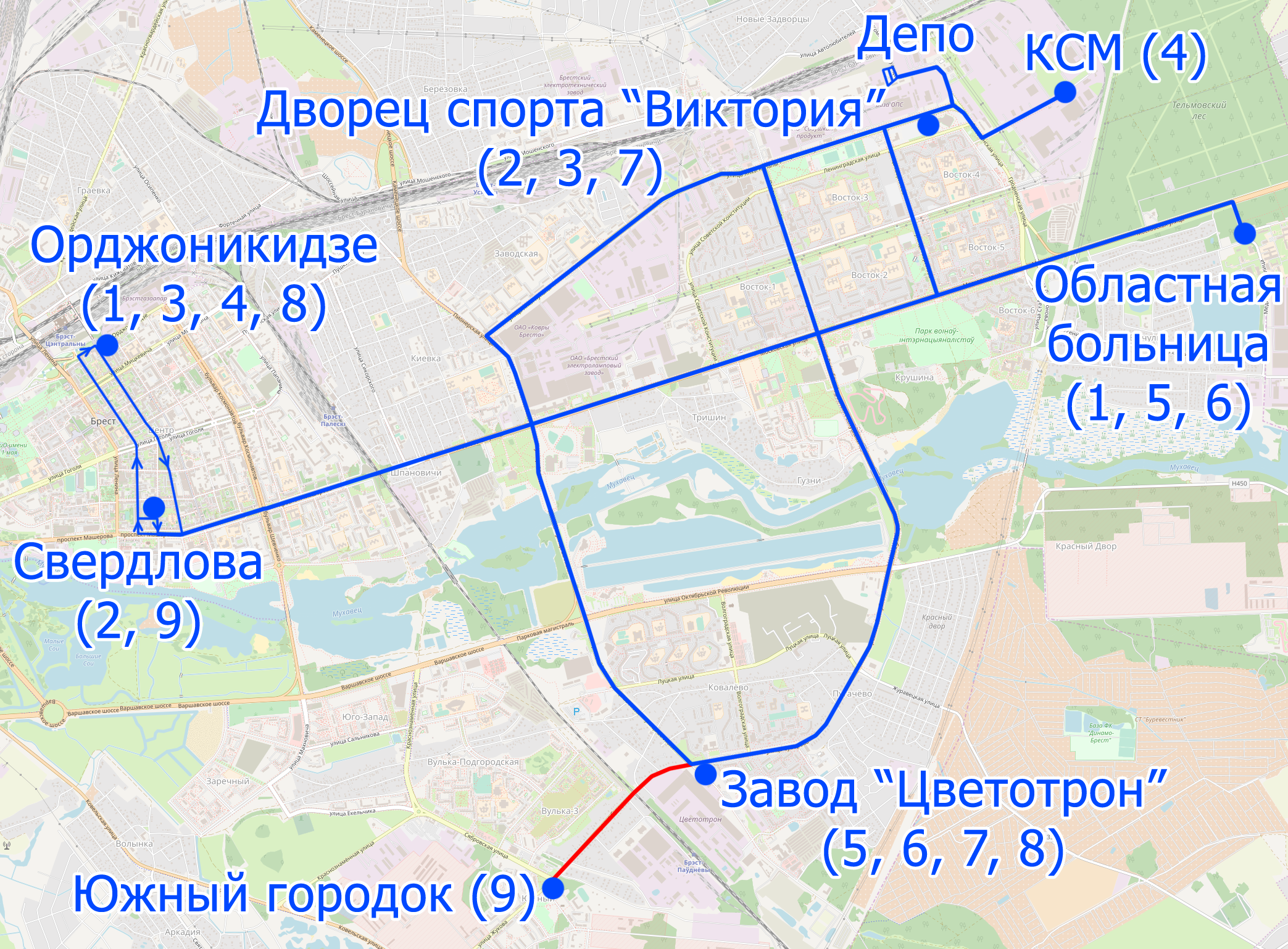 Trolleybus map of Brest, Belarus (in Russian). Non-electrified section for trolleybus No.9 with auxillary diesel generator is marked in red. This map may be incomplete, and may contain errors. Don't rely solely on it for navigation.